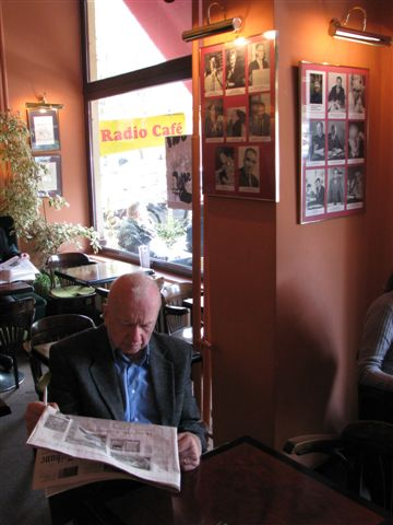 Stanisław (Stash) Pruszyński (b. October 25, 1935 in Warsaw, Poland), Polish journalist, publicist, editor and businessman. Son of Polish writer and journalist Ksawery Pruszyński (1907-1950)